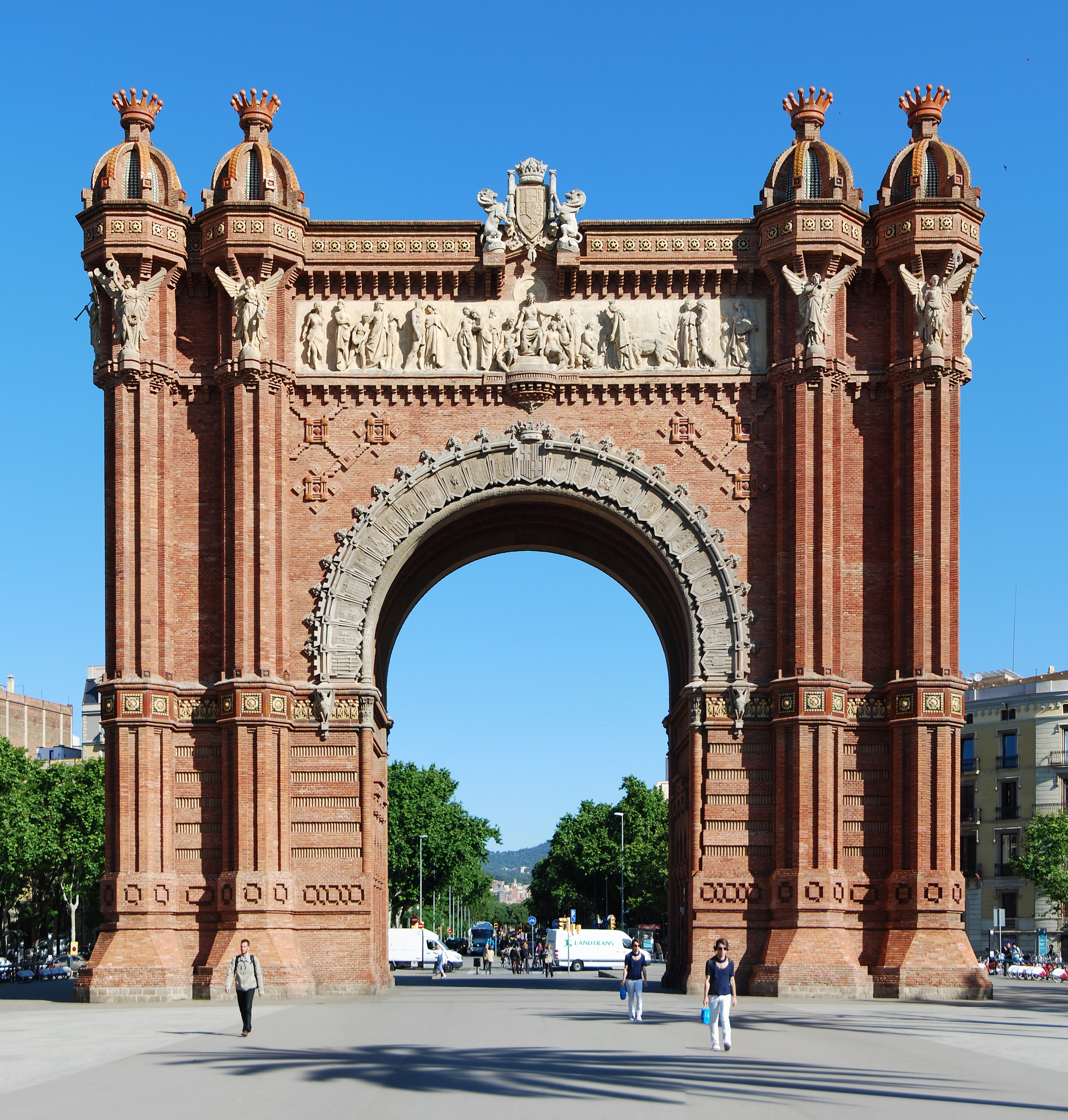 The Arc de Triomf, a triumphal arch in Barcelona.